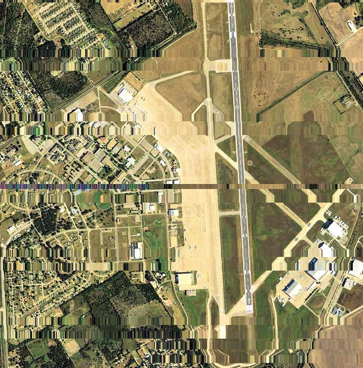 USGS orthophoto of TSTC Waco Airport, formerly James Connally Air Force Base, in Waco, Texas, United States